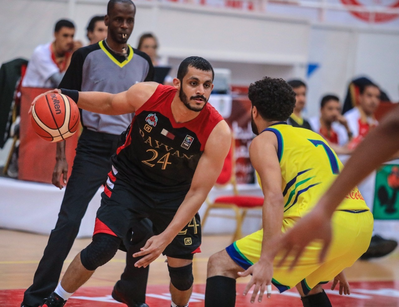 Mohamed Hassan A Mohamed Player Wearing jersey number 24 from Al Rayyan Sports Club vs Al Gezira Club in the Arab Games Championship Moroccoo 2019